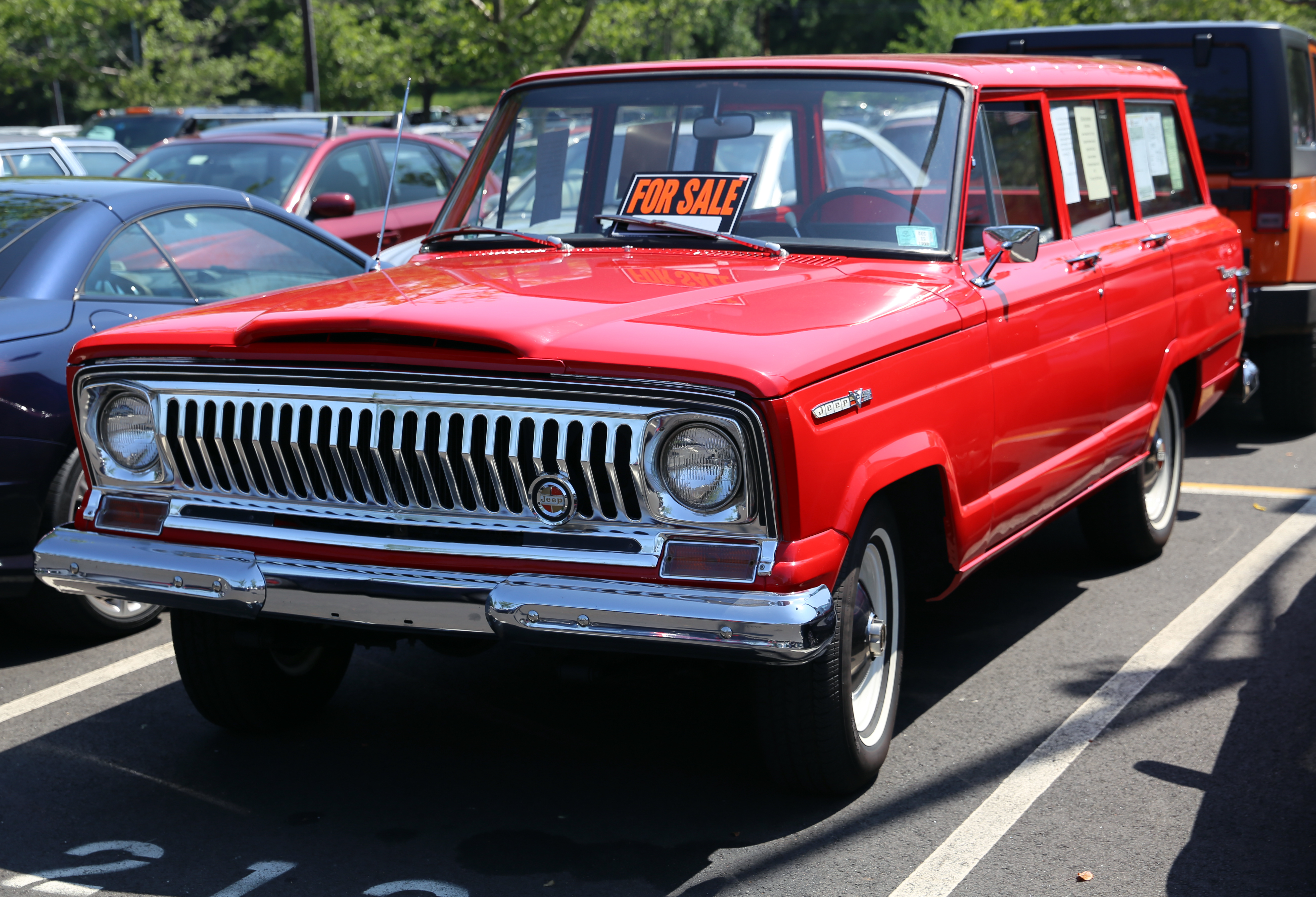 1968 Jeep Wagoneer V8 in the parking lot of the 2013 Greenwich Concours d'Elegance.